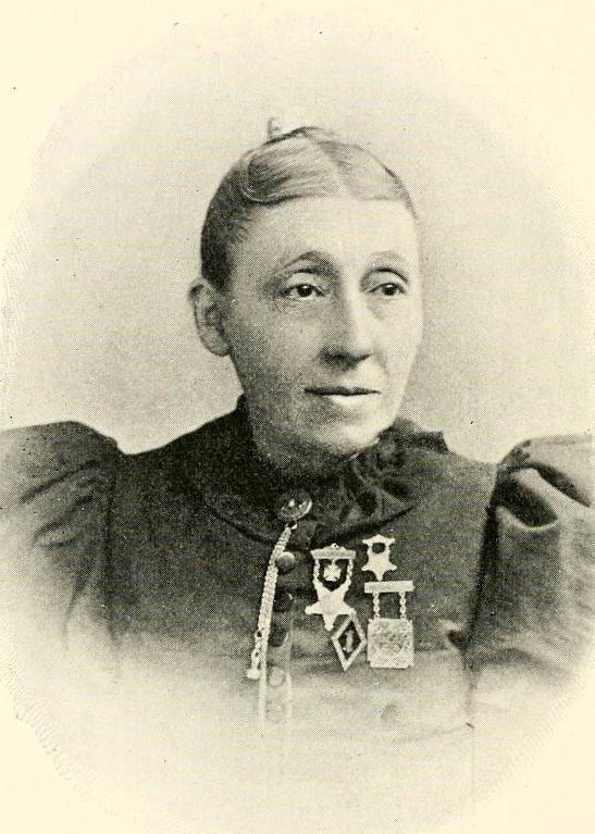 An older white woman, wearing her hair dressed back with a center part; several medals are pinned onto her jacket.